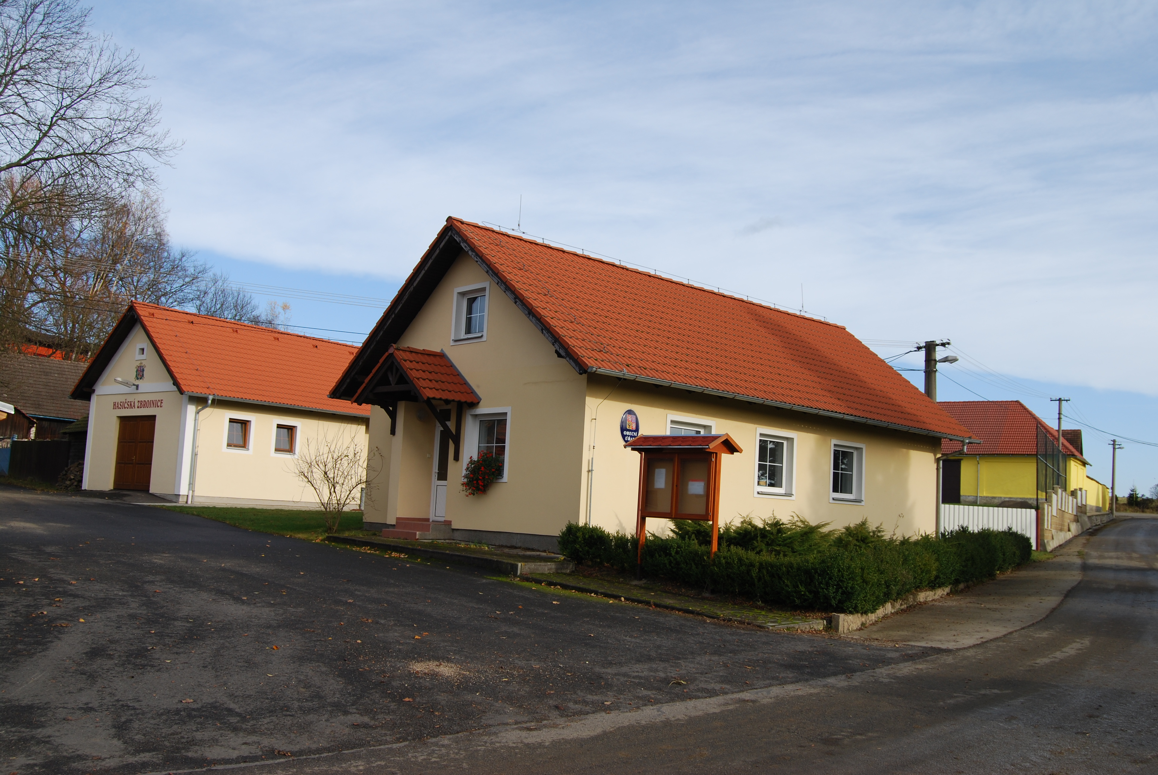 Záhoří village in Tábor District, Czech Republic.